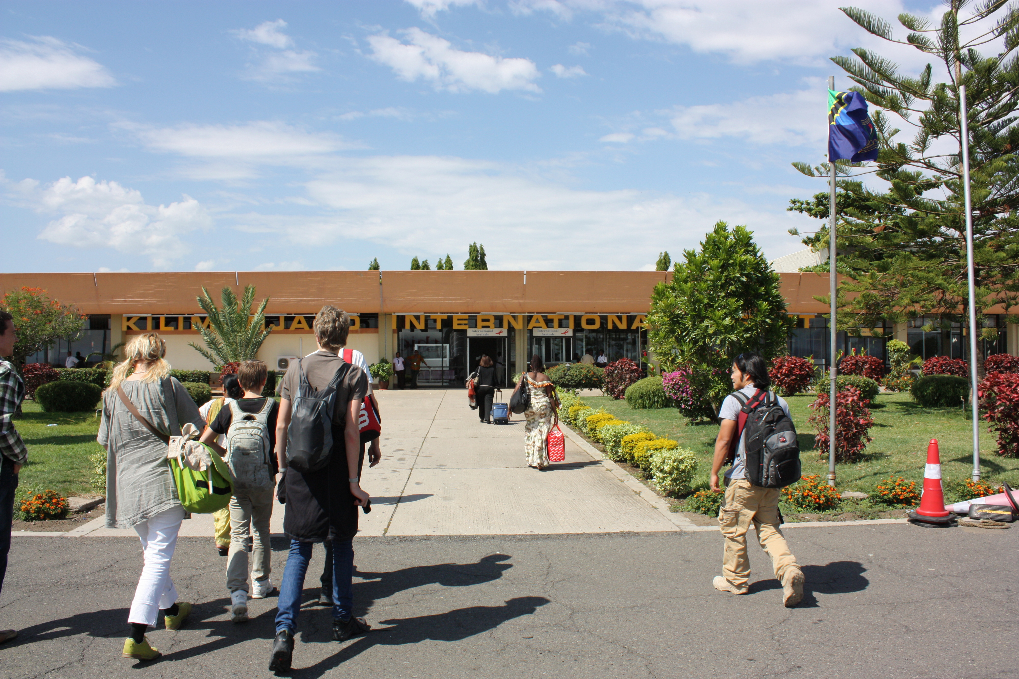 Arrival Entrance from the airfield to Kilimanjaro International Airport